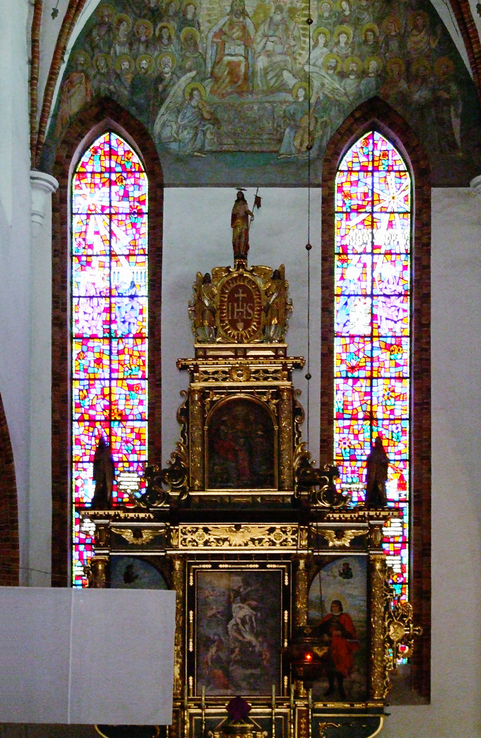 Collegiate in Szamotuły